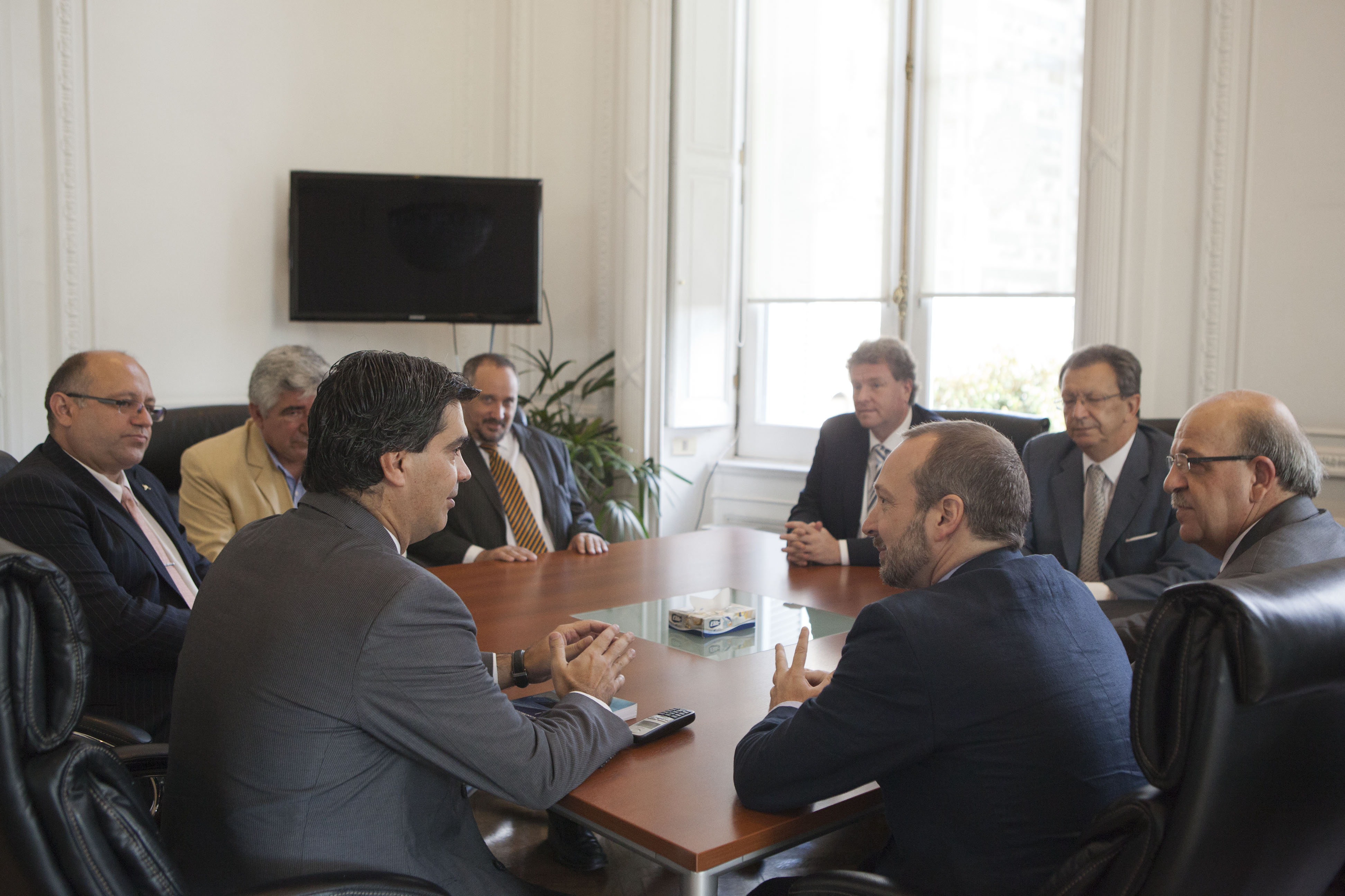 El Jefe de Gabinete de Ministros de la Nación, Jorge Capitanich recibe al directorio de la Autoridad Federal de Servicios de Comunicación Audiovisual (AFSCA) en Buenos Aires, 27 de Diciembre de 2013. Foto: Ricardo Ceppi, prensa de Jefatura de Gabinete